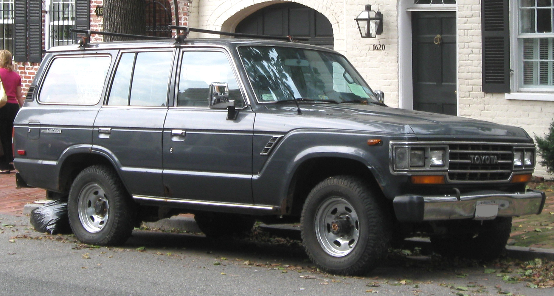 1988-1990 Toyota Land Cruiser photographed in Washington, D.C., USA.